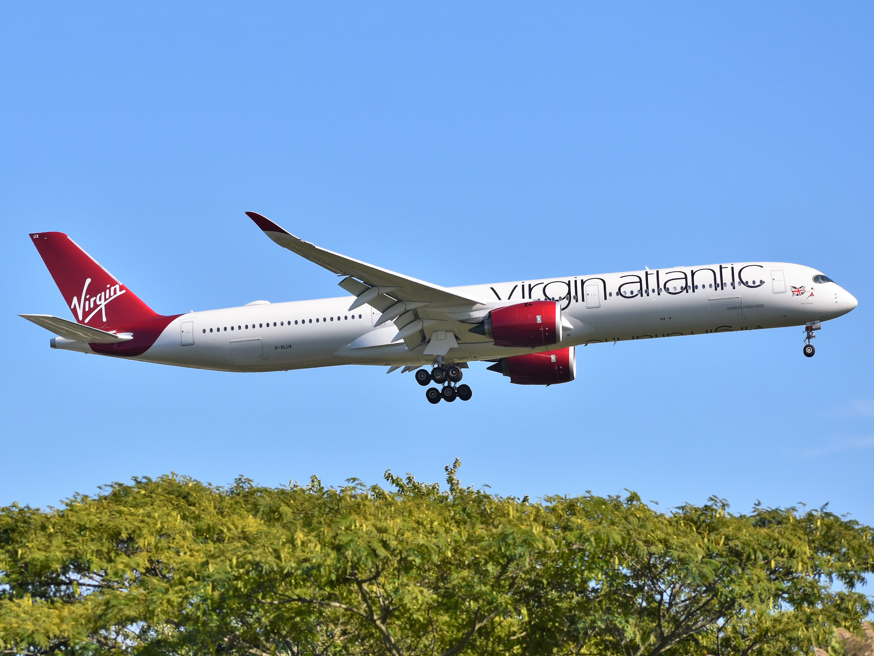 Operating Flight VS153, a Virgin Atlantic Airbus A350-1000XWB is on final approach to JFK Airport's Runway 22L.